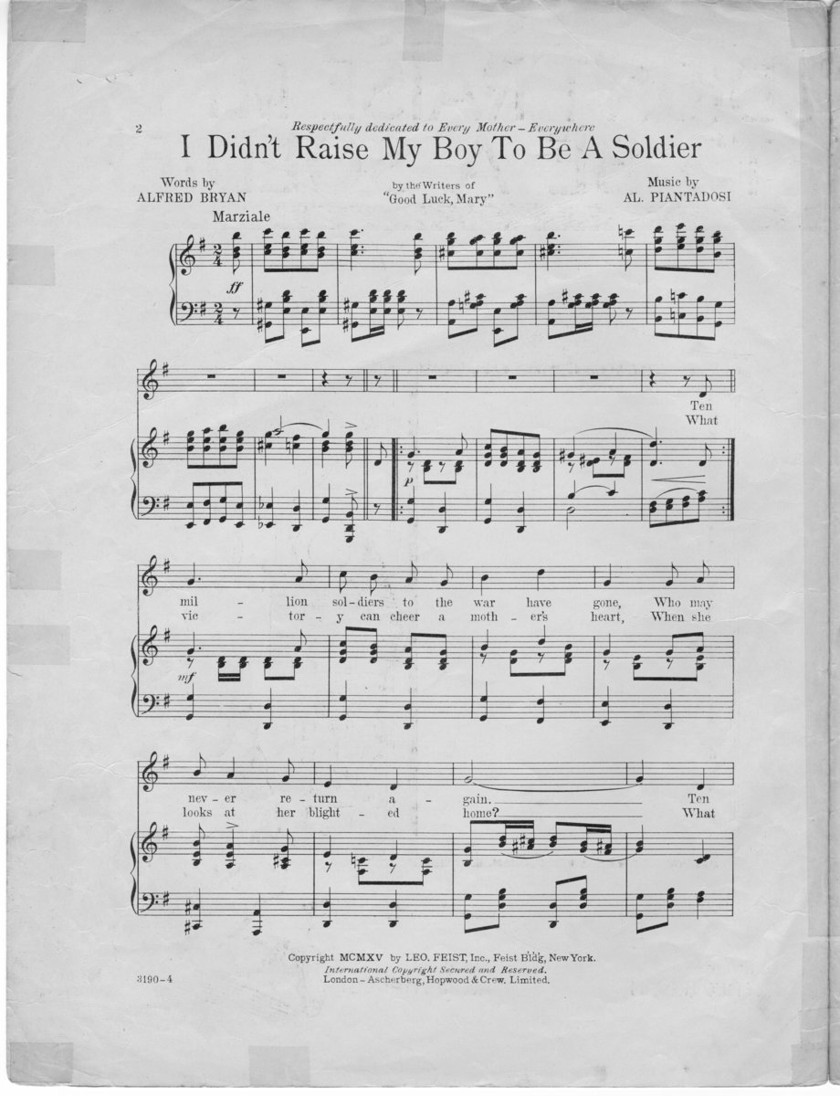 "I Didn't Raise My Boy To Be A Soldier", sheet music first page.